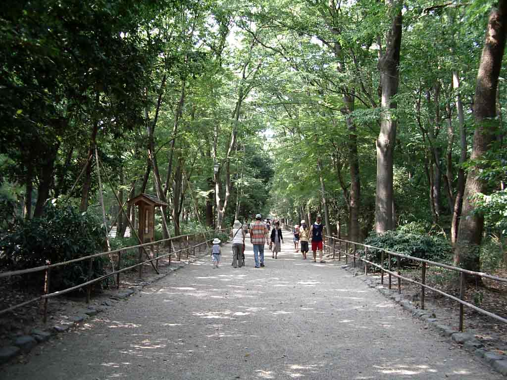 Approaching the Shimogamo shrine through the Tadasu-no-Mori